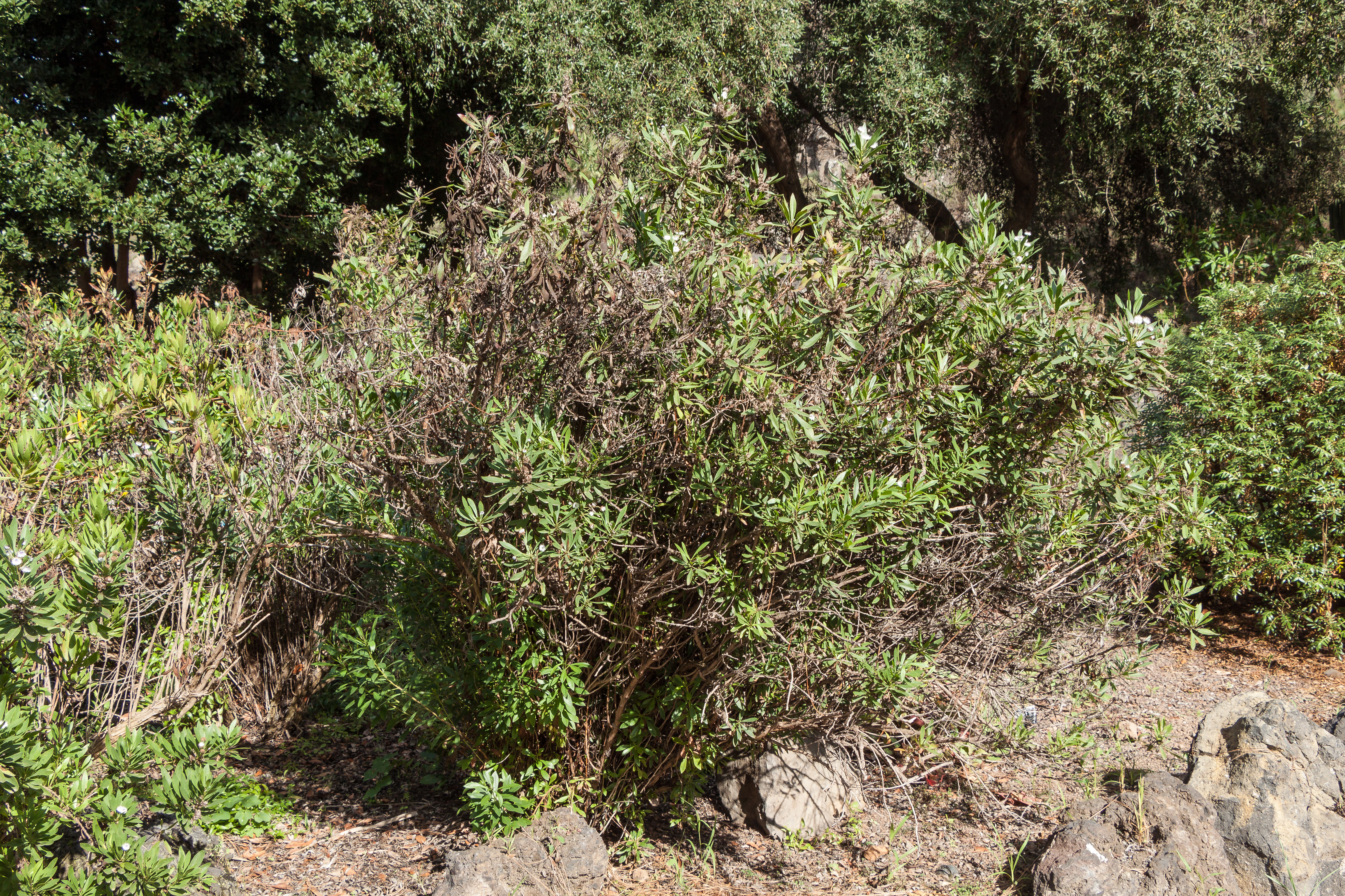 Globularia ascanii Bramwell & Kunkel.; Habitus; Jardín Botánico Canario Viera y Clavijo, Gran Canaria, Canary Islands, Spain.